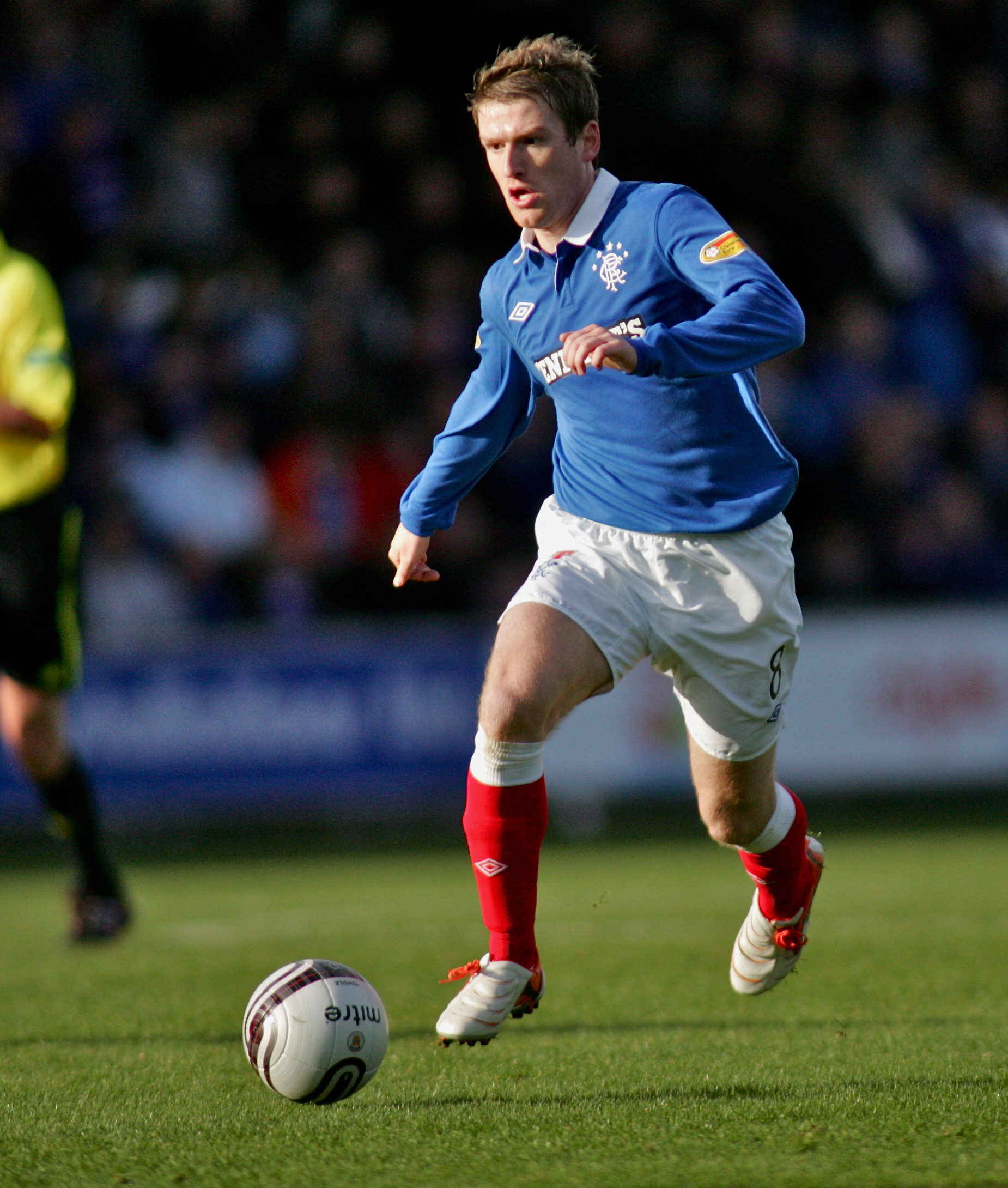 Steven Davis playing for Rangers F.C. in a Scottish Premier League match against St. Mirren F.C. played on 7 November 2010